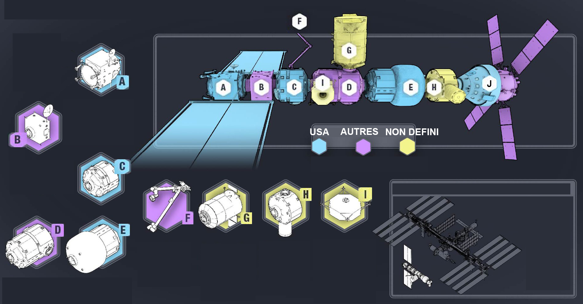 The Gateway will serve as an all-in-one solar-powered communications hub, science laboratory, short-term habitation module, and holding area for rovers and other robots.